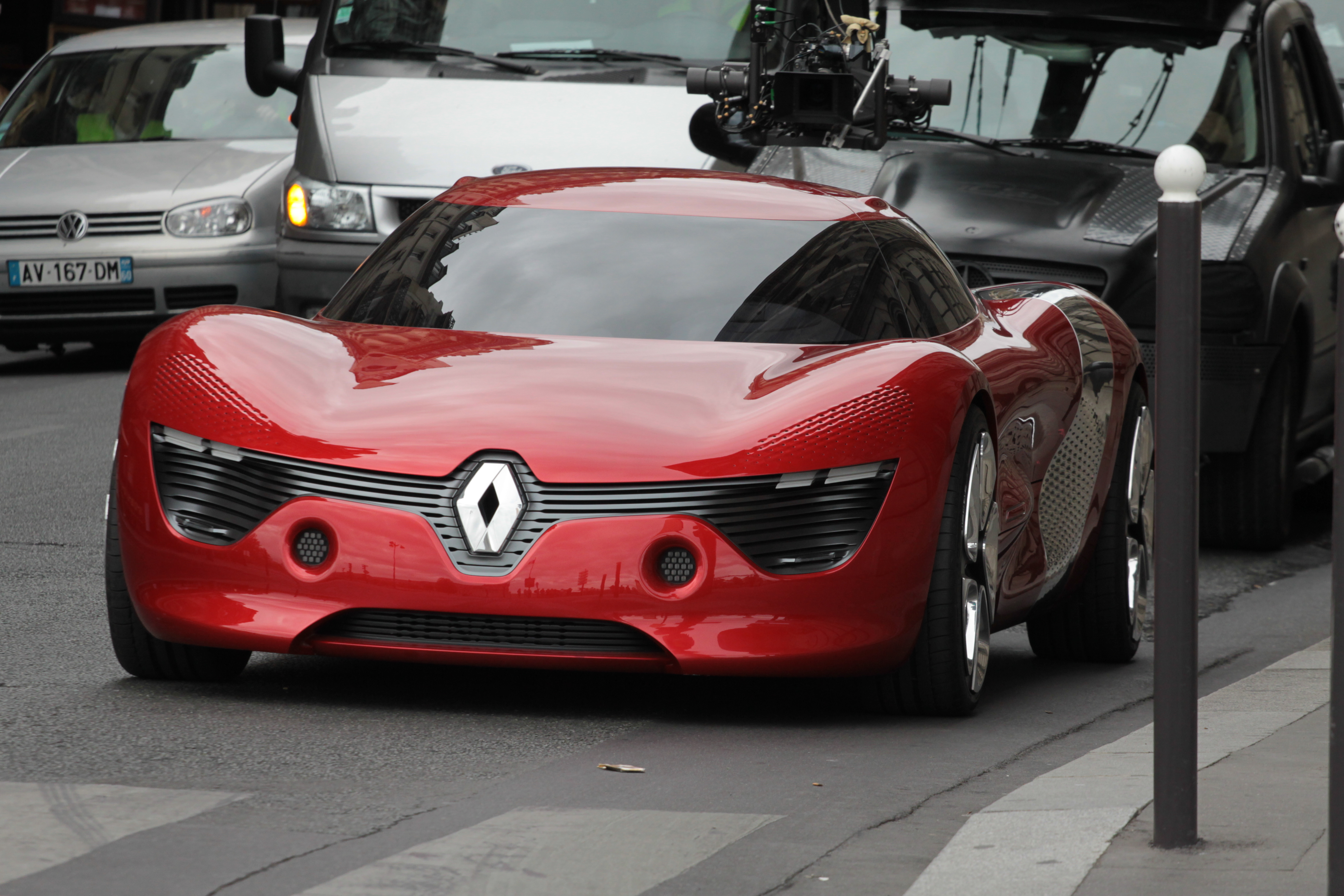 A Renault DeZir concept car as seen in Paris, France. It's being filmed for an upcoming movie.